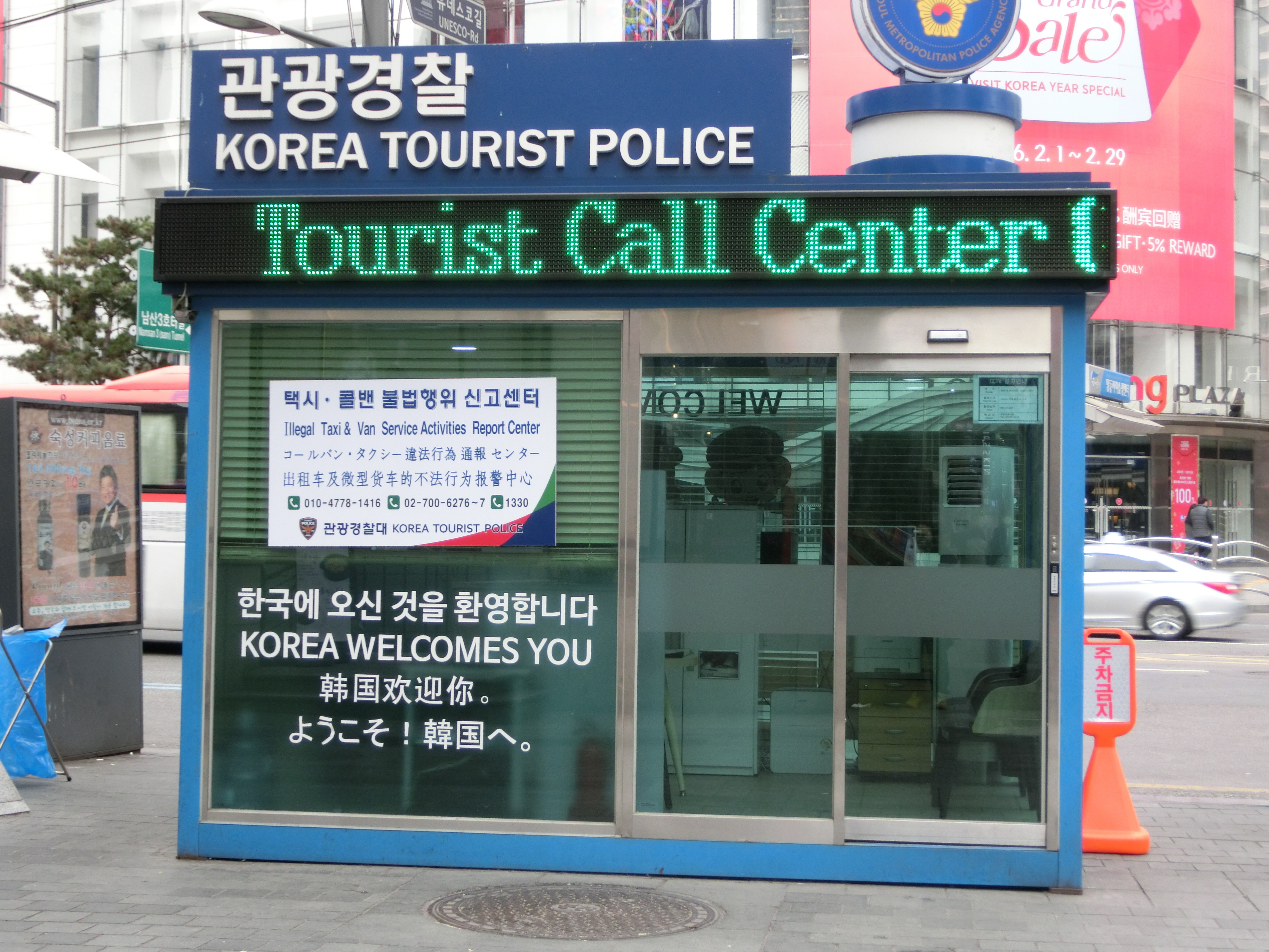 Korea Tourist Police Myeongdong Tourist Information Center